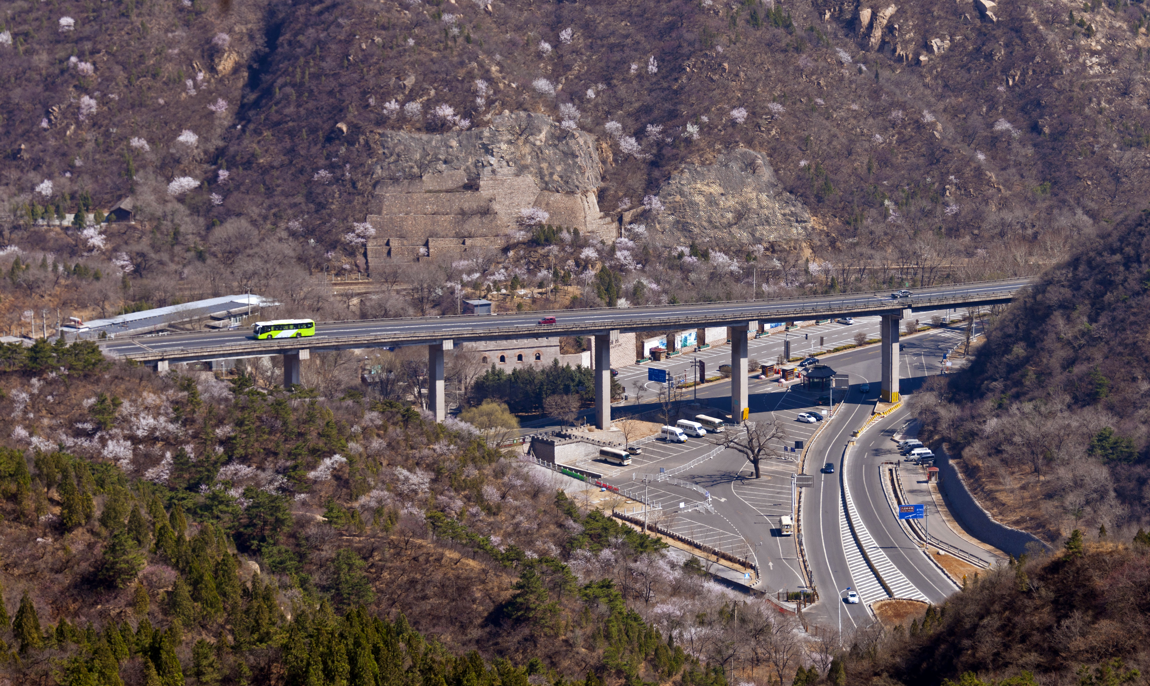 Section of the Badaling Expressway seen from the Great Wall of China in the nearby mountains